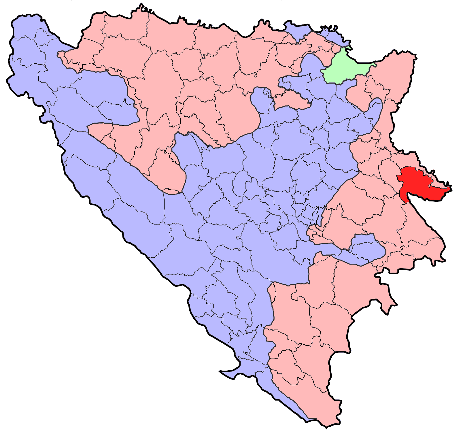 Location of Srebrenica municipality in Bosnia and Herzegovina.